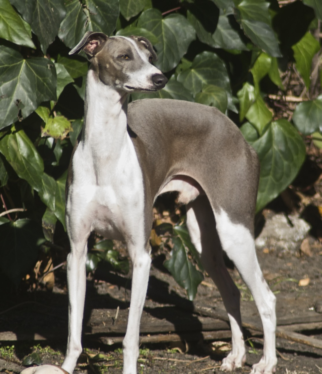 Italian Greyhound